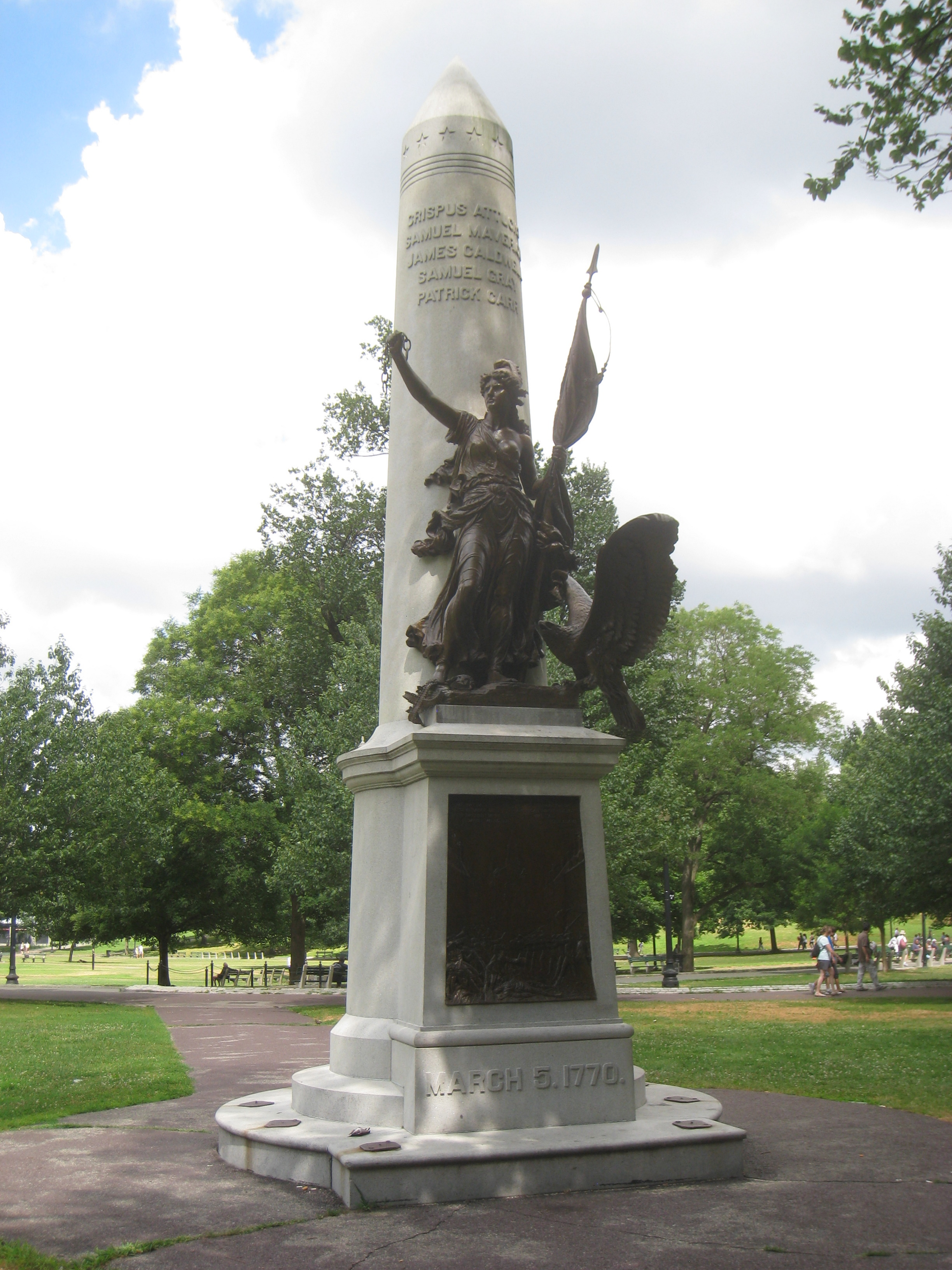 Boston Massacre Memorial, Boston Commons, Boston, Massachusetts, USA. Dedicated November 14, 1888. The statue was created by German-born sculptor Adolph Robert Kraus (1850-1901); the base is by architect Carl Fehmer.